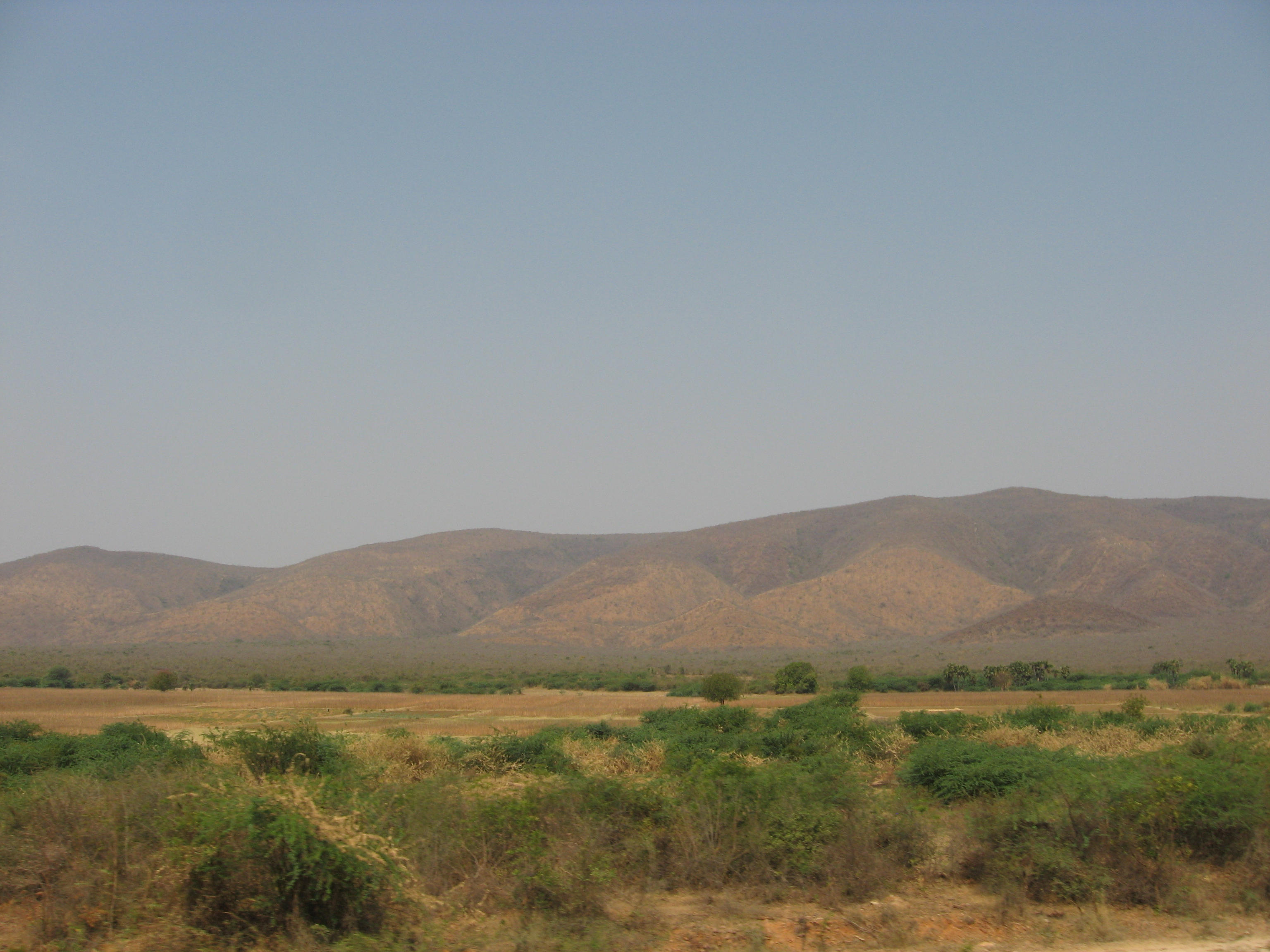 The Nallamallas from afar